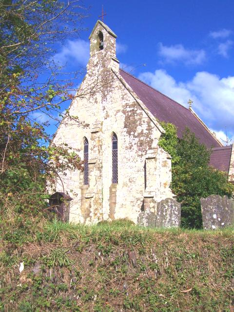 St. Michael Church. St. Michael & All Angels Church, Situated just of the A487 in the small village of Tremain, between Blaenannerch and Penparc.